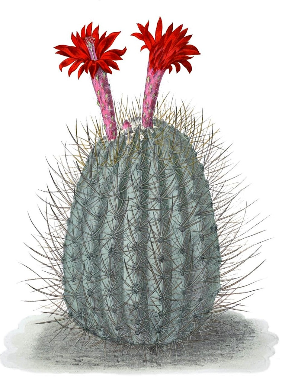 Oreocereus hempelianus